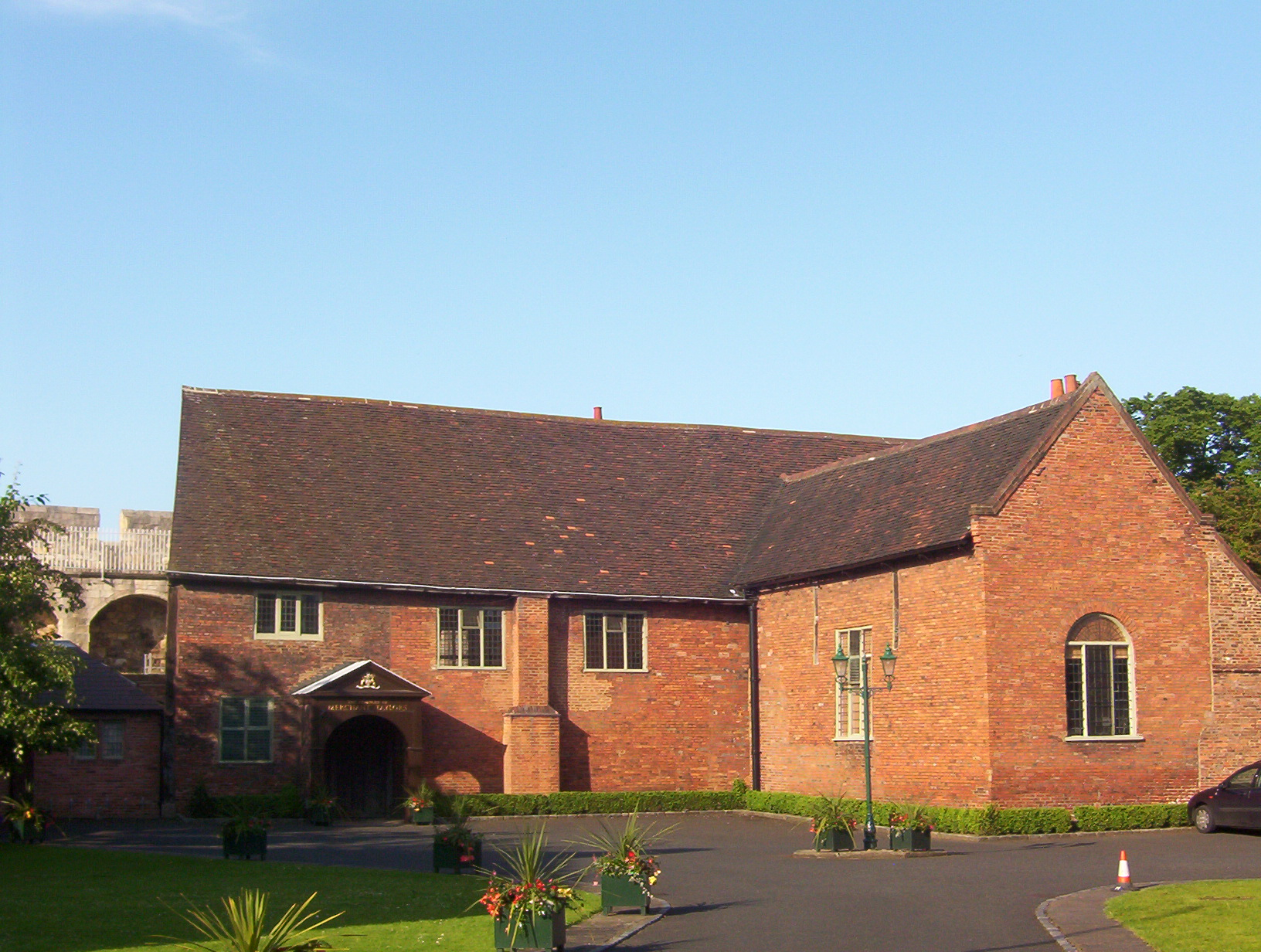 The front of the Merchant Taylors' Hall in York.